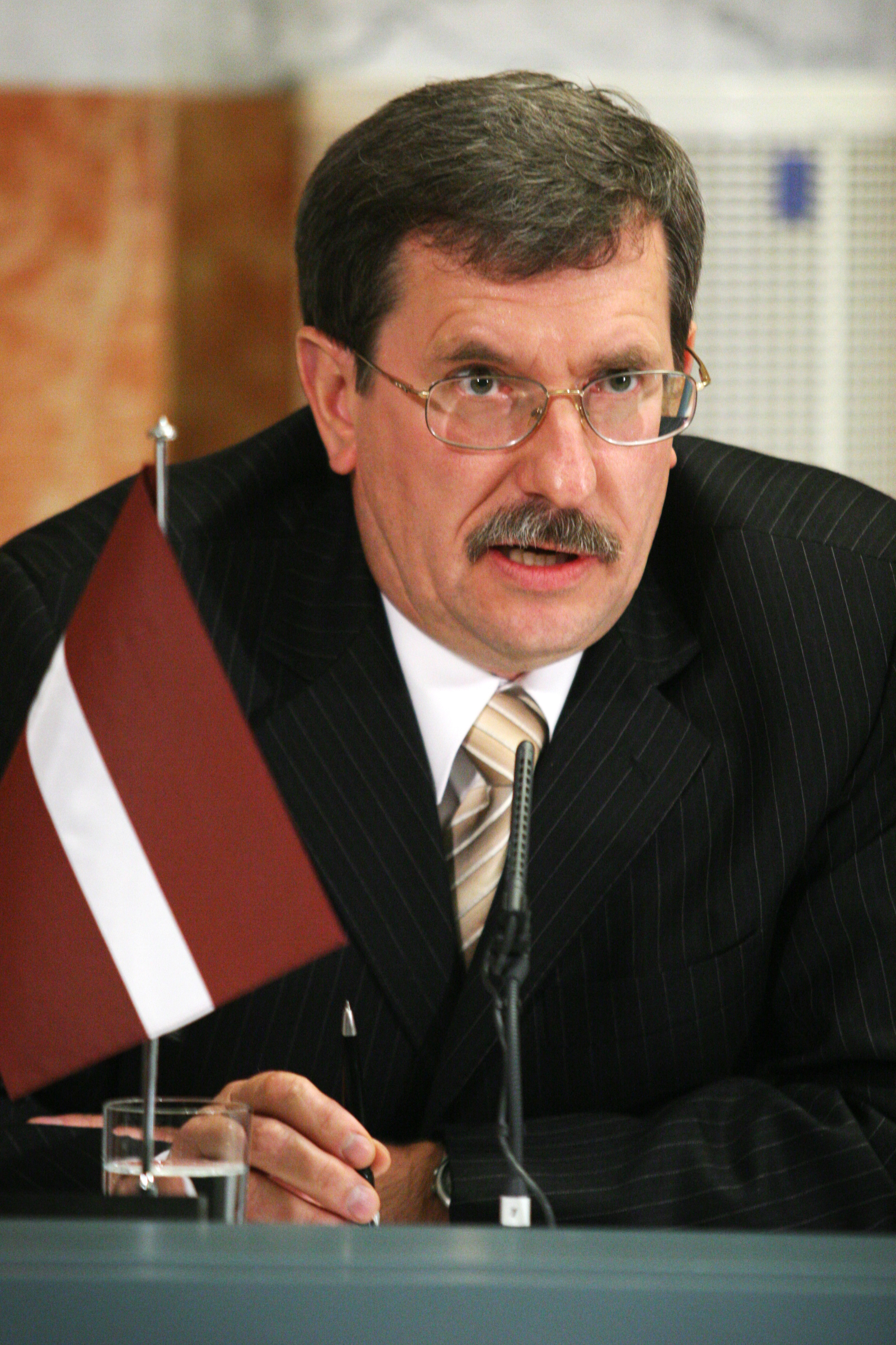 Indulis Emsis, Prime Minister of Latvia, during the press conference at the Nordic Council Session in Stockholm.